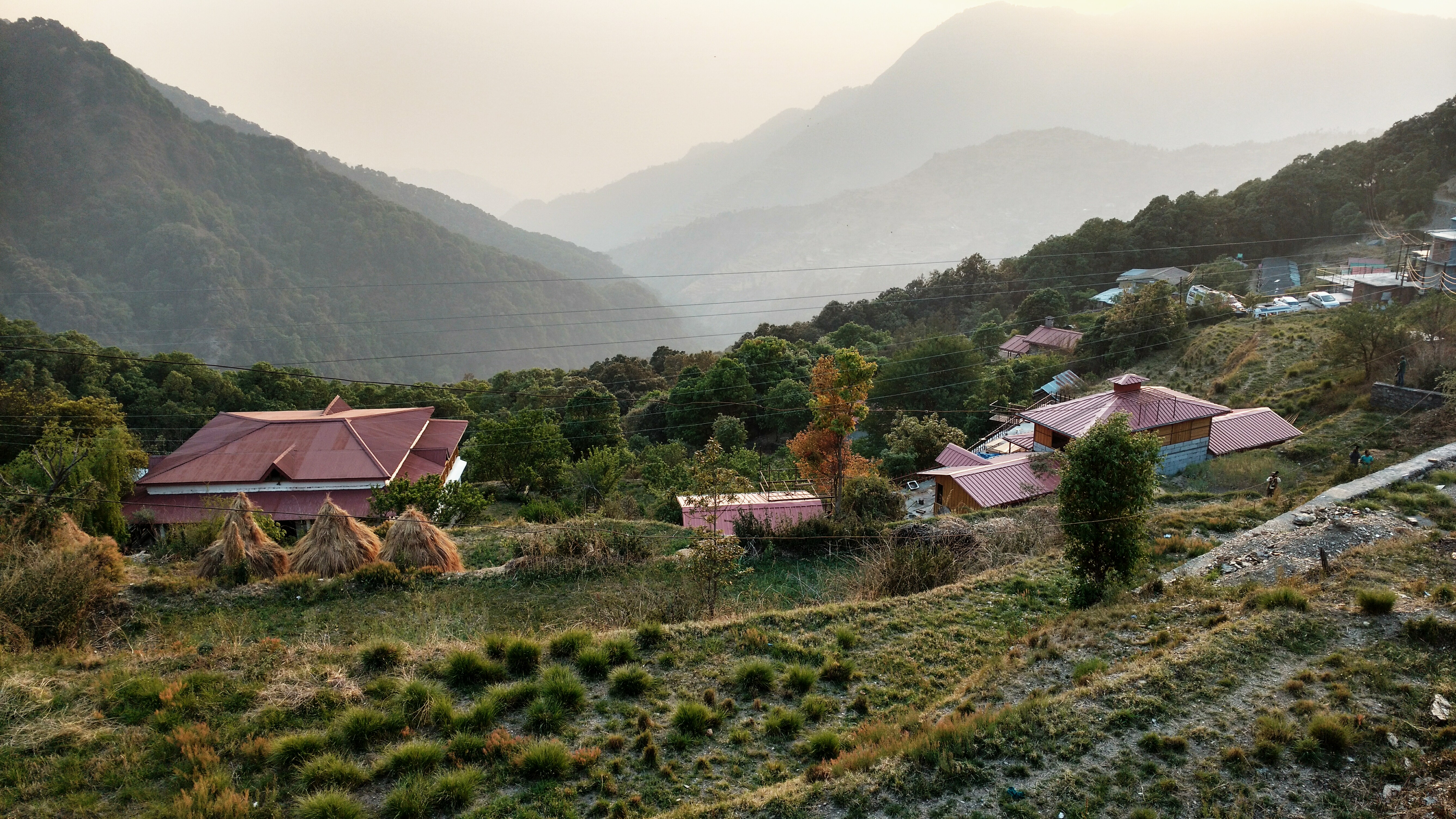 Pangot, a hamlet in Uttarakhand.